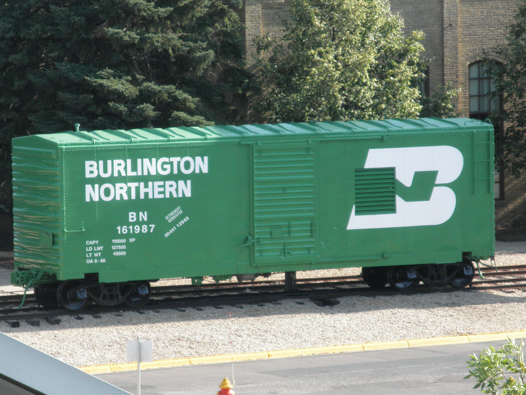 This 40-foot boxcar, of Burlington Northern vintage, has long been on display at Bandana Square, and remained there once most of the other rail equipment on display was donated to the Minnesota Transportation Museum due to the boxcar housing a generator